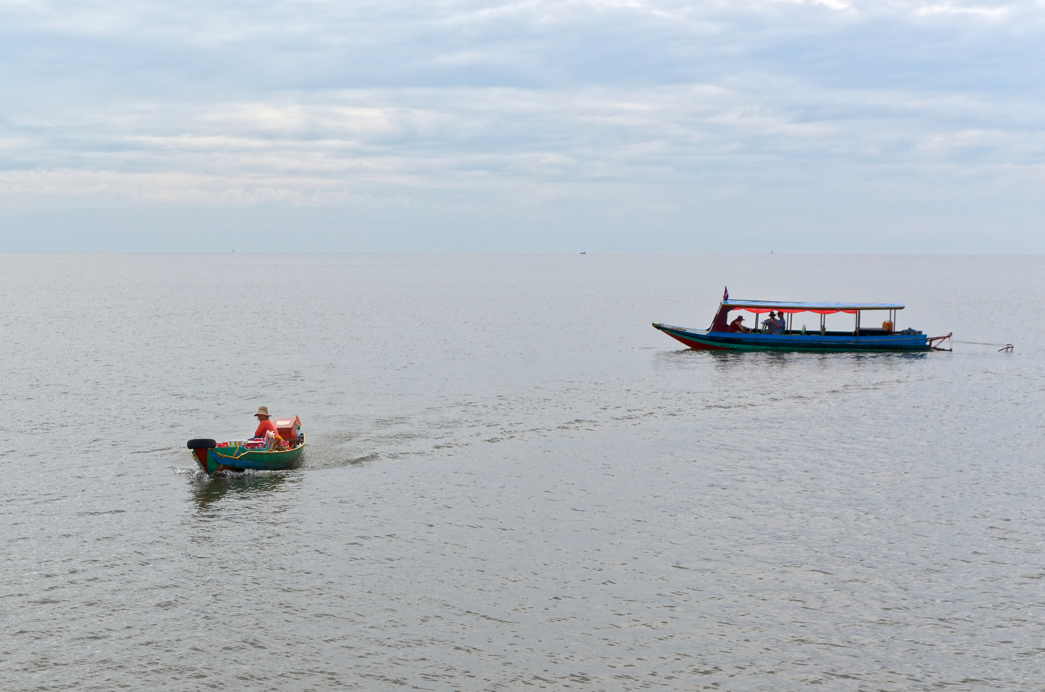 Tonle Sap Lake, near Kampong Phlouk in Cambodia